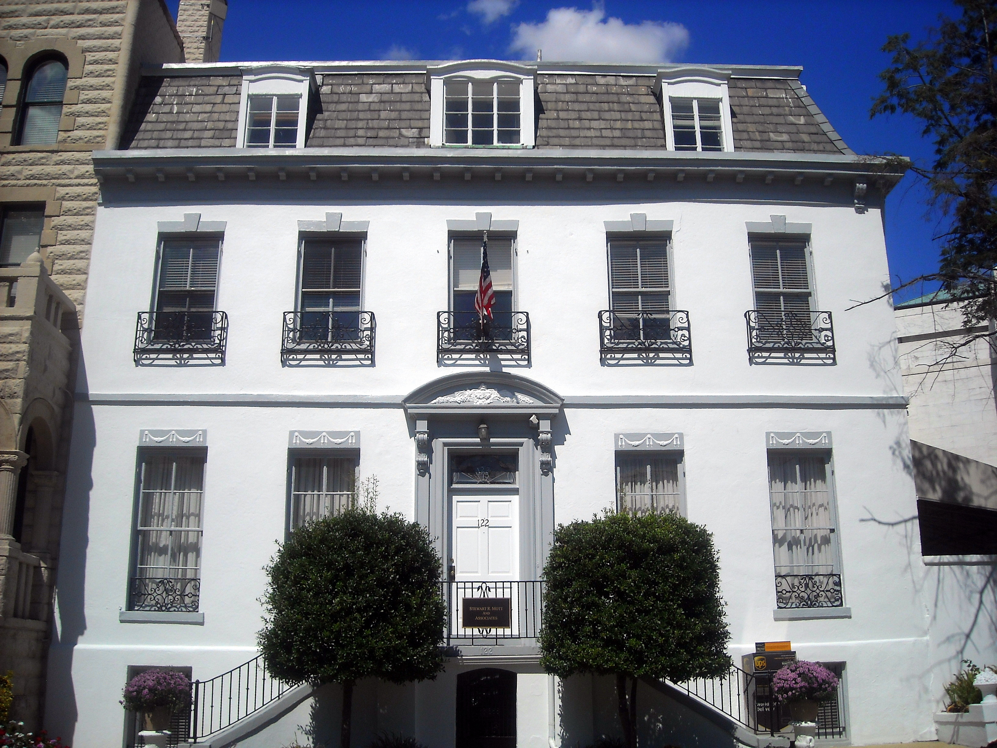 The Mountjoy Bayly House (also known as the Bayly House, Hiram W. Johnson House, Chaplains Memorial Building, and Parkington) located at 122 Maryland Avenue, NE in the Capitol Hill neighborhood of Washington, D.C. Constructed in 1822, the building is a combination of Federal and Second Empire architecture. It originally served as the residence of the second Sargent at Arms of the Senate, General Mountjoy Bayly. From 1929 until 1947, it was the residence of Senator Hiram Johnson, former governor of California and a founder of the Progressive Party. The building is designated as a National Historic Landmark and contributing property to the Capitol Hill Historic District. The current owner of the building is the American Civil Liberties Union (ACLU).